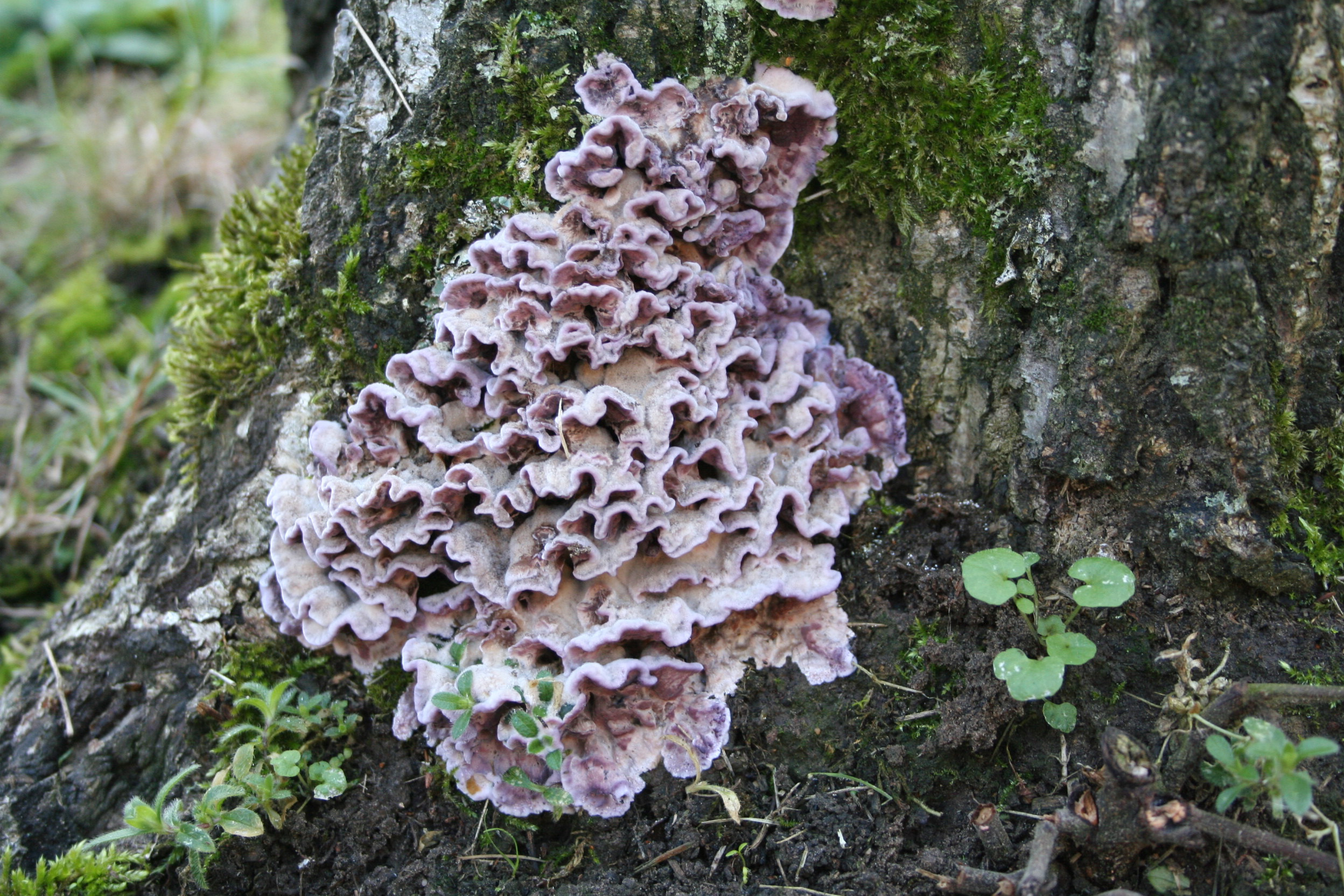 Chondrostereum purpureum in a garden, Massy, Île-de-France, France. This fungus causes 'Silver-leaf'.